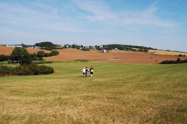 Blick auf Planschwitz